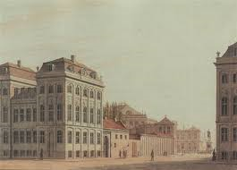 Parti fra Kobenhavn med Dehns palæ